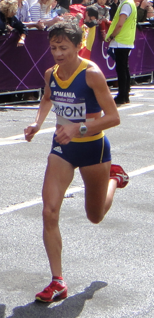 Olena Burkovska (Ukraine) Lidia Simon (Romania) - London 2012 Women's Marathon